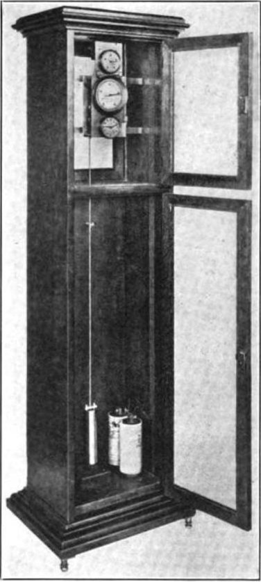 Electric utility master clock invented by Henry Ellis Warren in 1916 and manufactured by his company Warren Telechron. These were installed in the control rooms of U.S. electric generating plants and were the first device to precisely control the daily frequency of electric power grids. Warren promoted these to electric utilities in order to stabilize the power grid frequency to make the synchronous electric clocks his firm produced accurate. By 1935 Warren master clocks regulated over 95% of the electric power in the U.S. The device consists of a precision pendulum clock with a low temperature coefficient invar pendulum rod, and a synchronous electric clock driven by the 60 Hz electric power from the plant. The pendulum clock turns a black hand on the center dial, and the electric clock turns a gold hand on the same dial. The plant operator would adjust the output power until the two hands turned in synchronism. If the gold hand fell behind, the operator would increase power so the generators turned slightly faster, increasing the frequency of the alternating current, causing the electric clock to run faster until the gold hand caught up to the black one. If the gold hand got ahead, he would reduce power. This kept the averaged frequency of the AC power at exactly 60 Hz. The result was that all synchronous clocks attached to the power grid would keep in step with the precision pendulum clock, which was accurate to within a few seconds per week. Before the use of these clocks, utilities only kept their grid frequency accurate to within about ±2%, which resulted in unacceptable synchronous clock errors of 1/2 hour per day. The dry cell batteries visible at the bottom powered an eddy current coil under the pendulum through a rheostat which could be used to adjust the rate of the pendulum without stopping it. The master clock was periodically checked against radio time signals broadcast by the U.S. Naval Observatory in Washington.